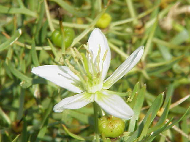 Species: Peganum harmala Family: Zygophyllaceae Image No. 2